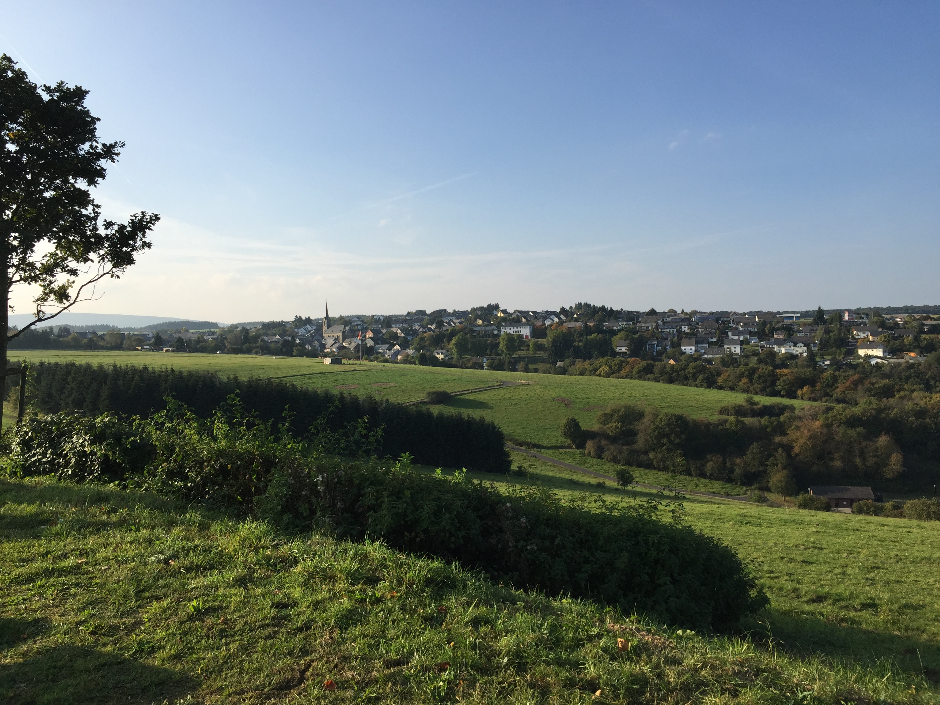 A view about Bundenbach.